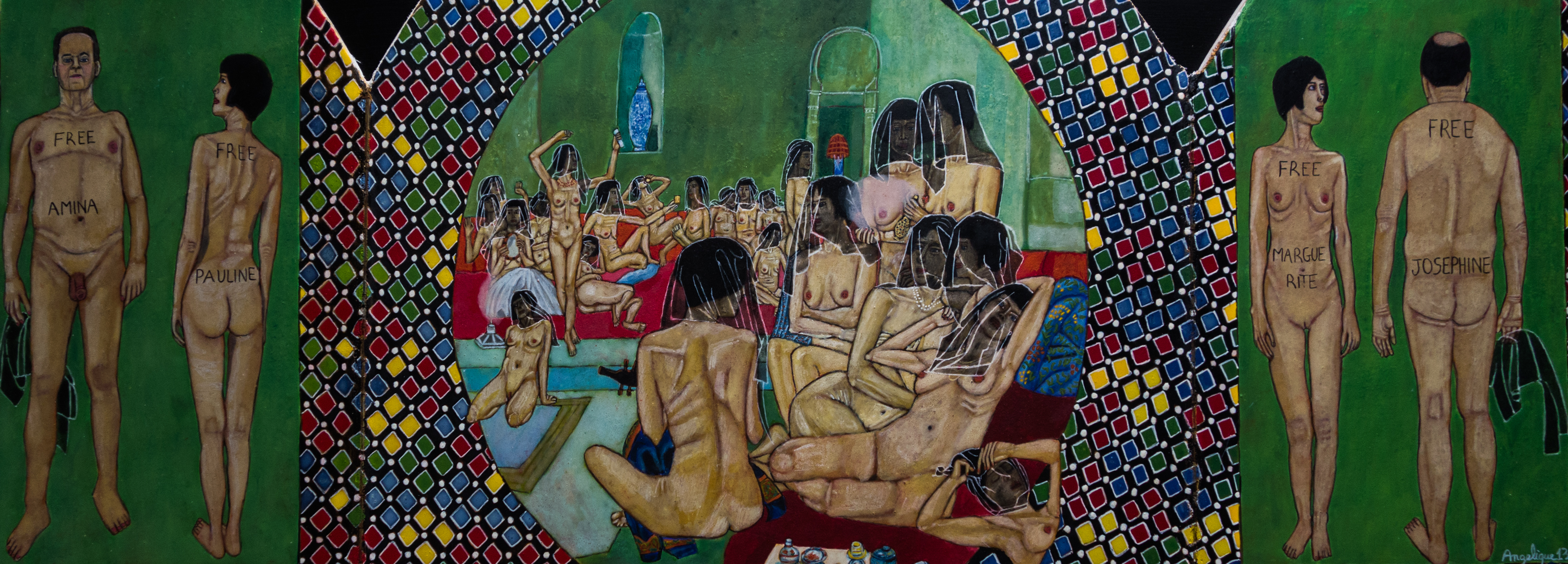 Turkish bath